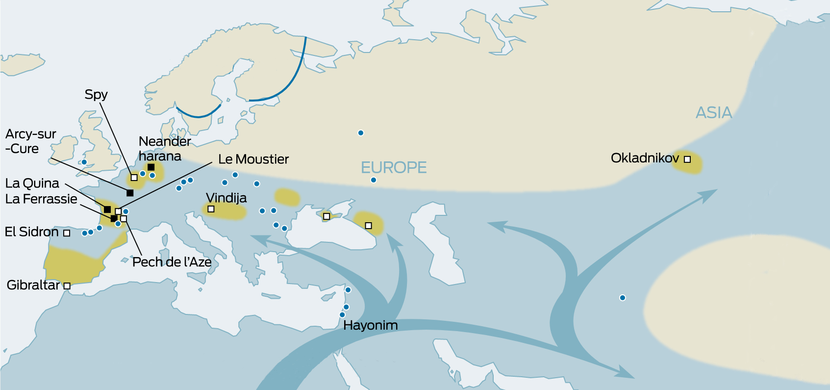 Maps showing the distribution of Neanderthals and after the dispersal of anatomically modern humans out of Africa, and the locations of major archeological sites for each group